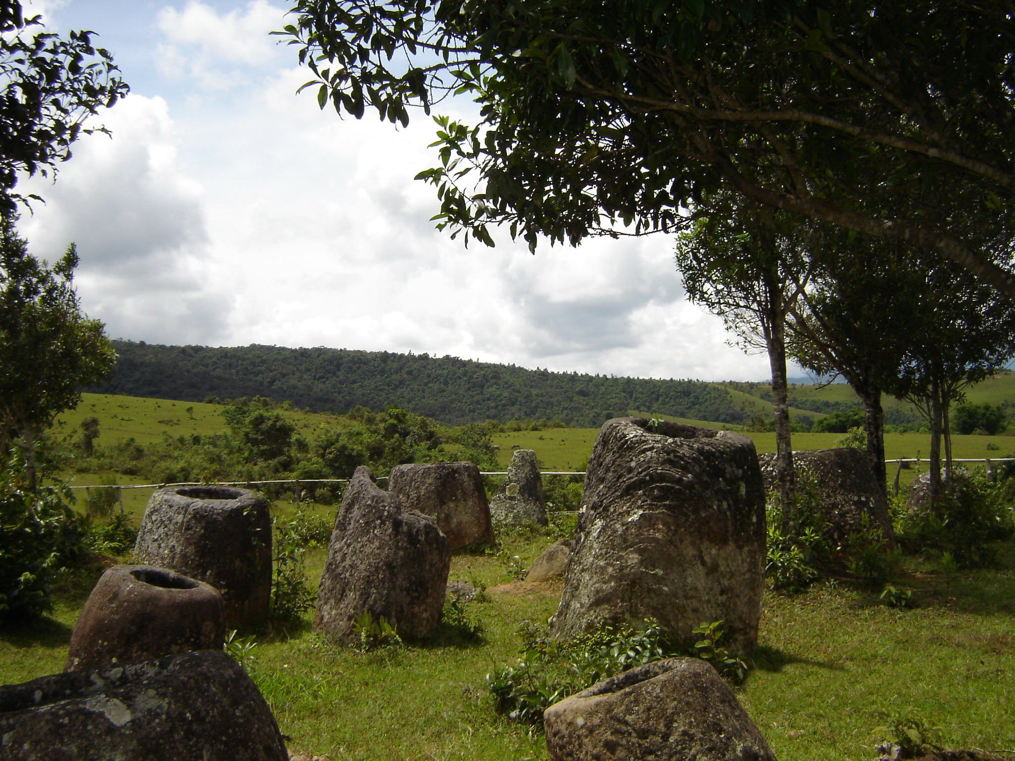 Picture is taken at Jar site 3 in Xieng Khouang province, Plain of Jars